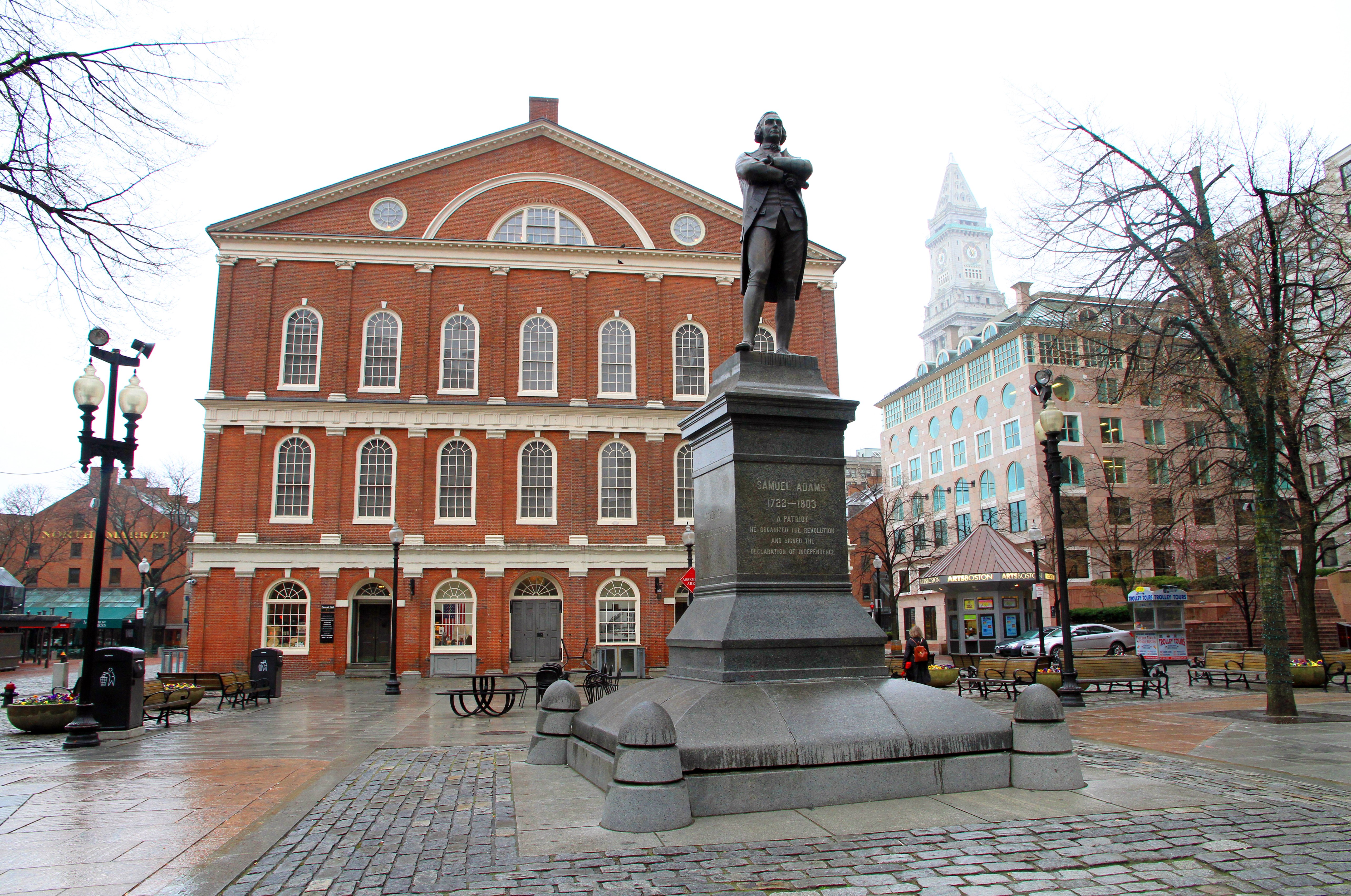 Samuel Adams and Faneuil Hall